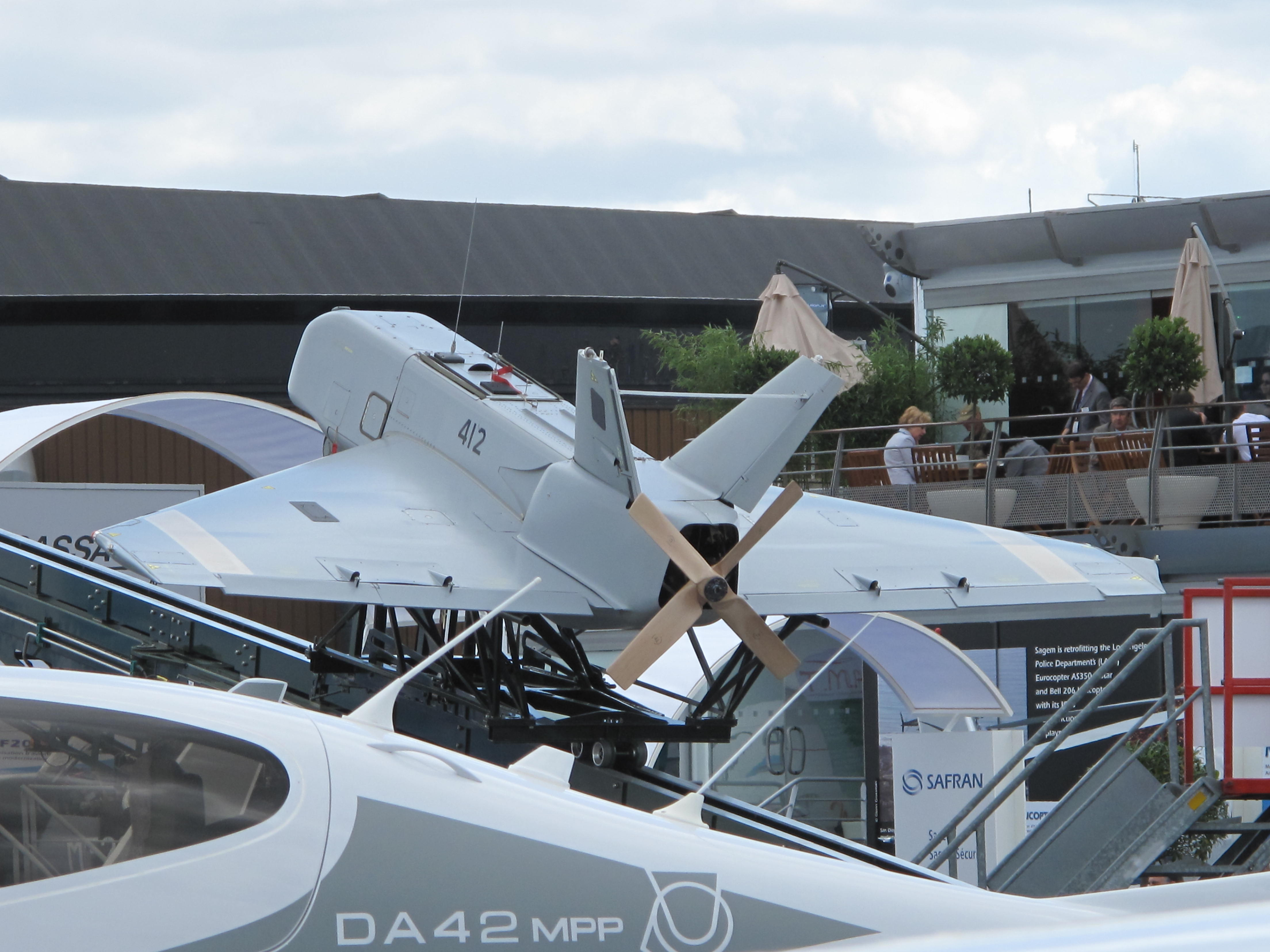 French UCAV Sagem Sperwer (or SDTI) at the Paris Air Show 2009